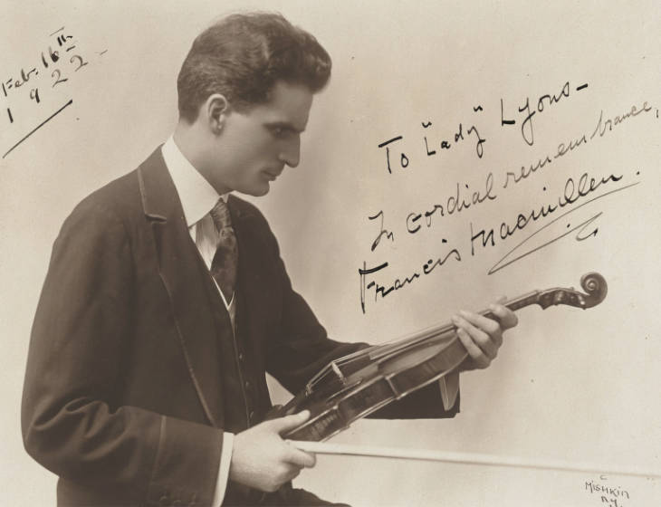 1922 publicity photo of Francis MacMillen inscribed to Lucille Lyons of Fort Worth, Texas.